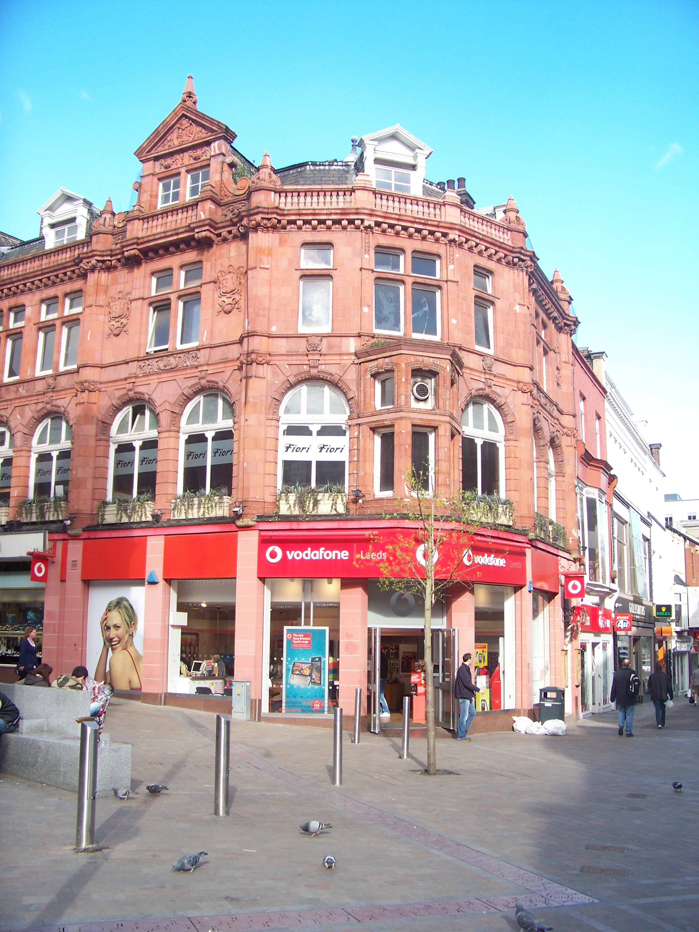 Vodafone shop on the junction of Commercial Street and Lands Lane in Leeds. Taken on the afternoon of Monday the 11th of April 2011.